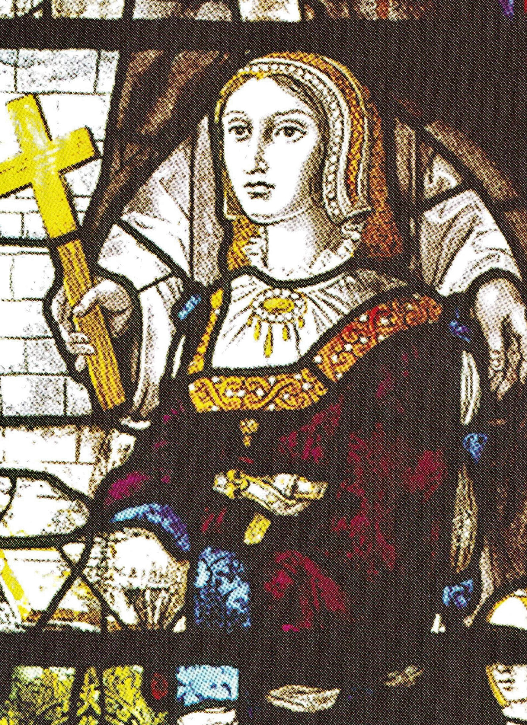 Stained-glass window in the High Chapel of the Church of Saint Mary of Victory (Batalha Monastery, Leiria, Portugal), attributed to Francisco Henriques, c. 1510-1513. It depicts Maria of Aragon, Queen of Portugal in prayer, with her daughters.